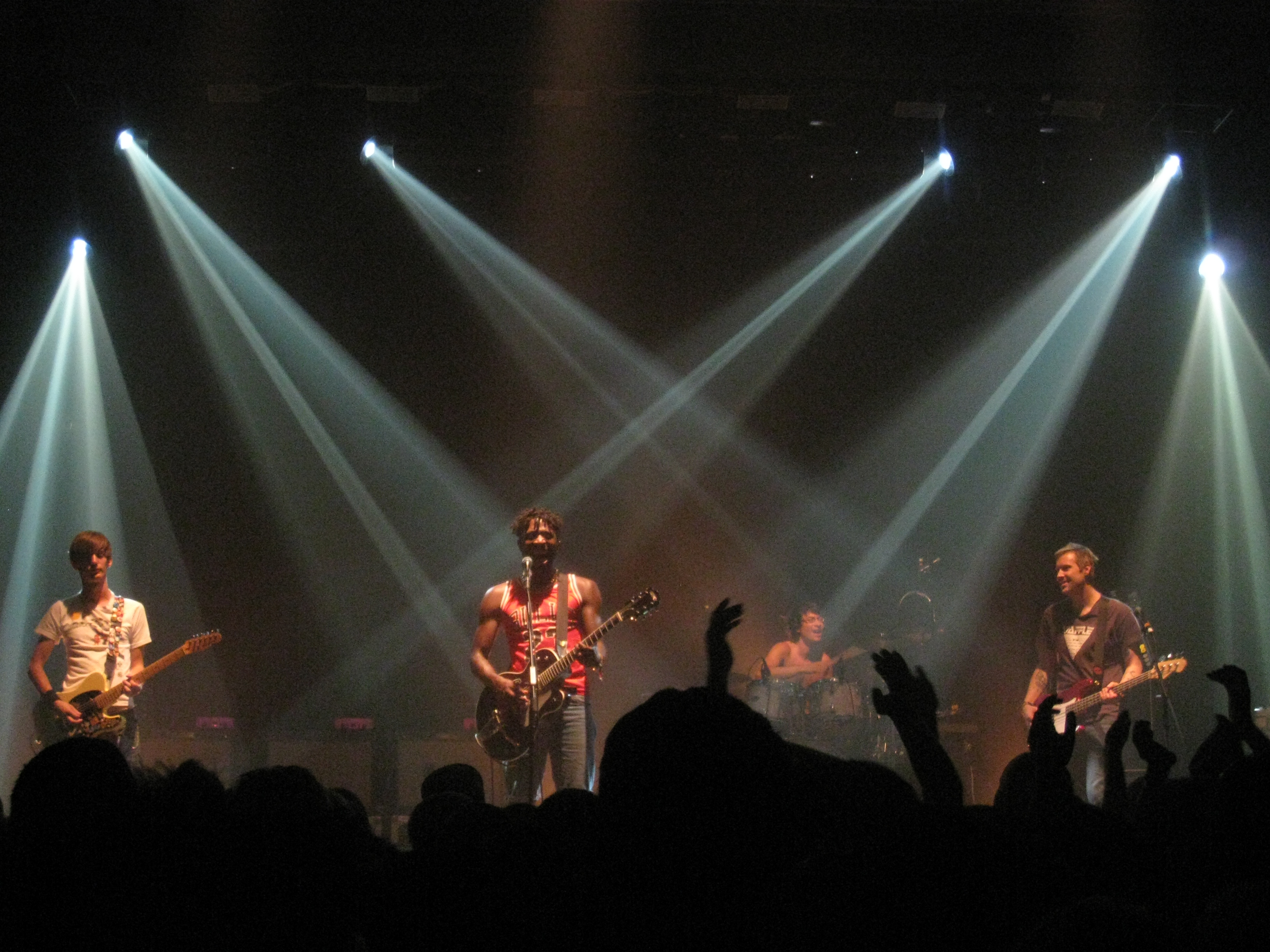 Bloc Party at Webster Hall 2008.